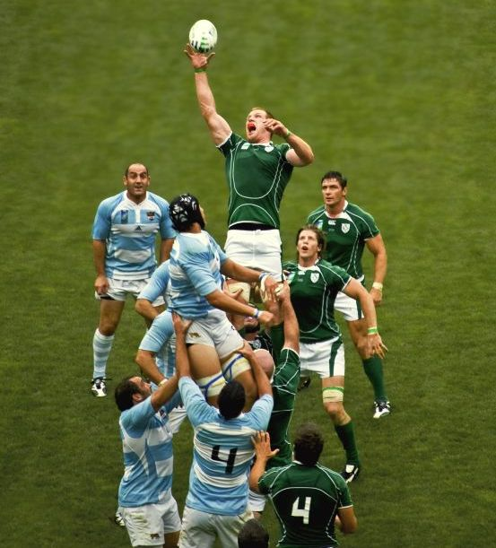 Paul O'Connell in action for Ireland.